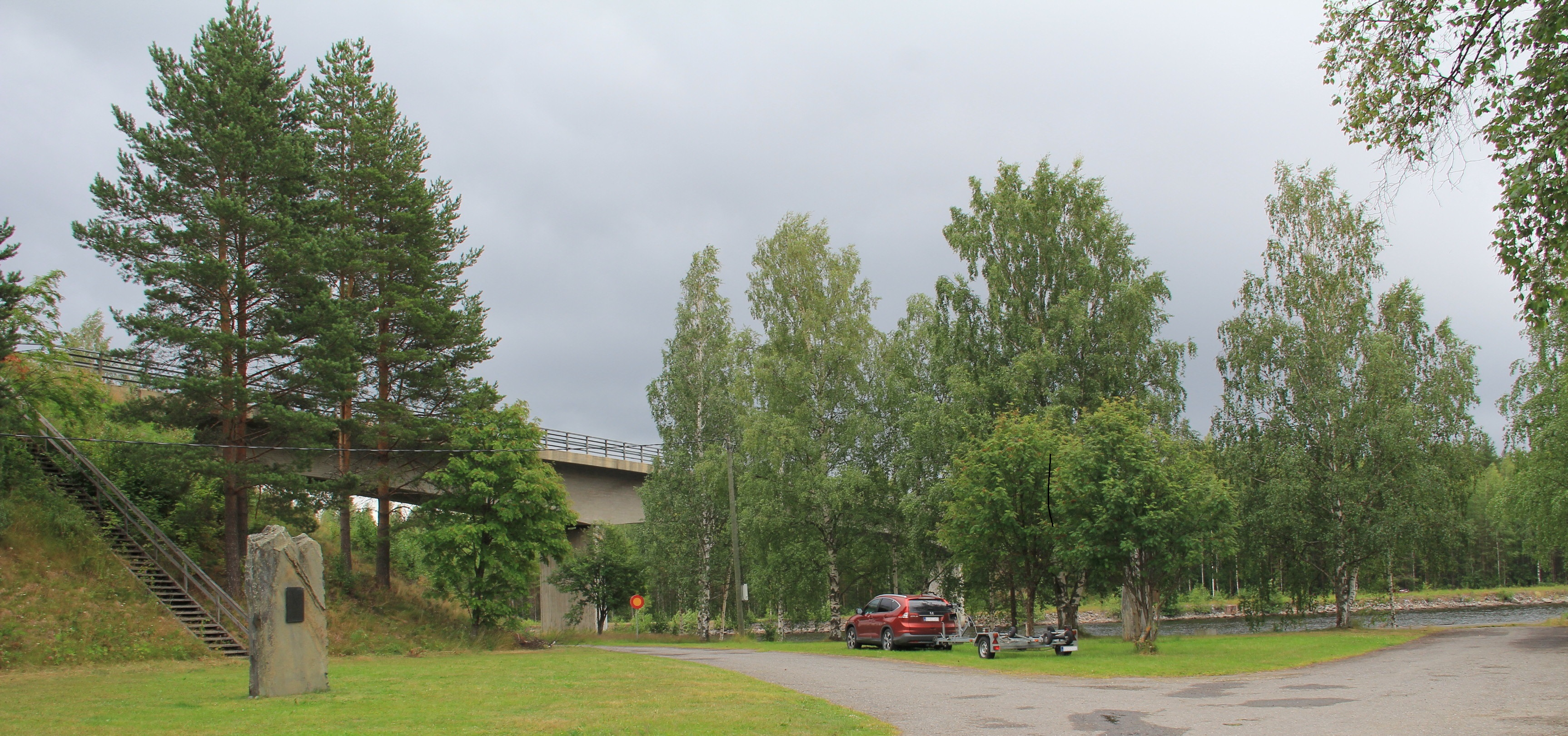 Kivisalmi rest area, canal and bridge, Oravisalo, Rääkkylä, Finland.